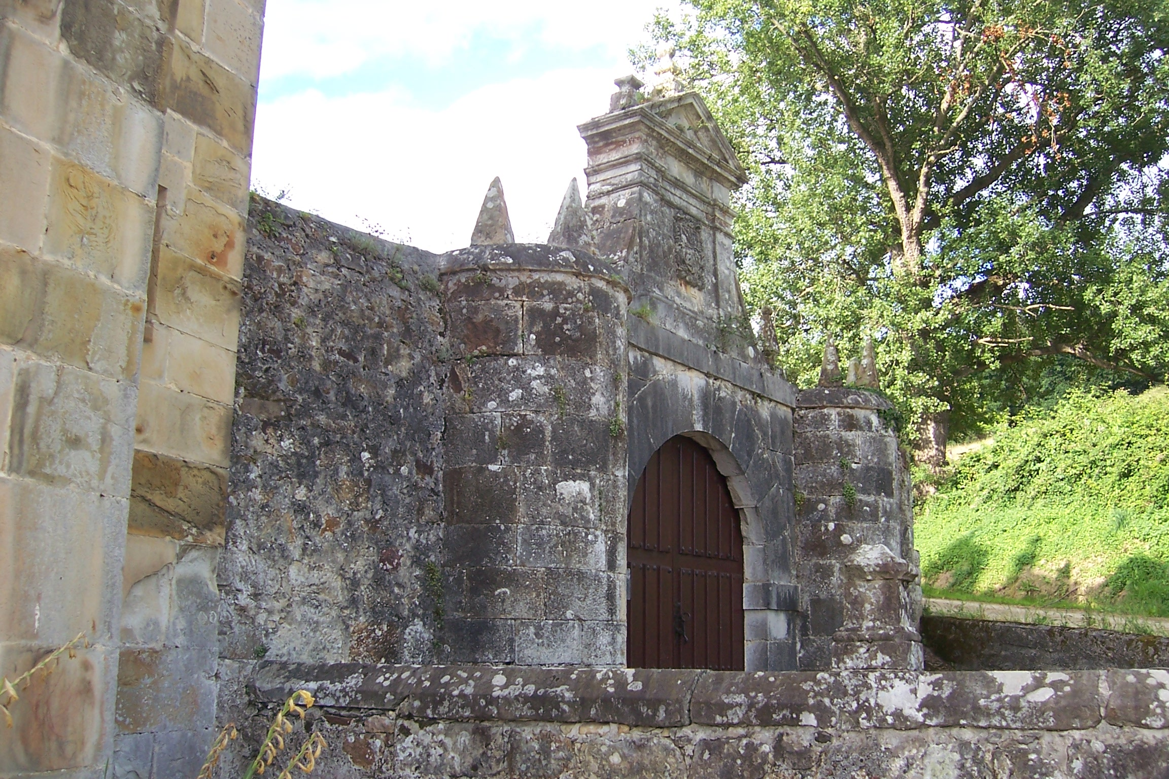 Bárcena de Cicero (Cantabria, Spain). View of the large entrance of the palace built for Lorenzo de Rugama in the middle of the 18th century which consists of a tower-house and a chapel-pantheon consagrated to the Virgin of Carmen.